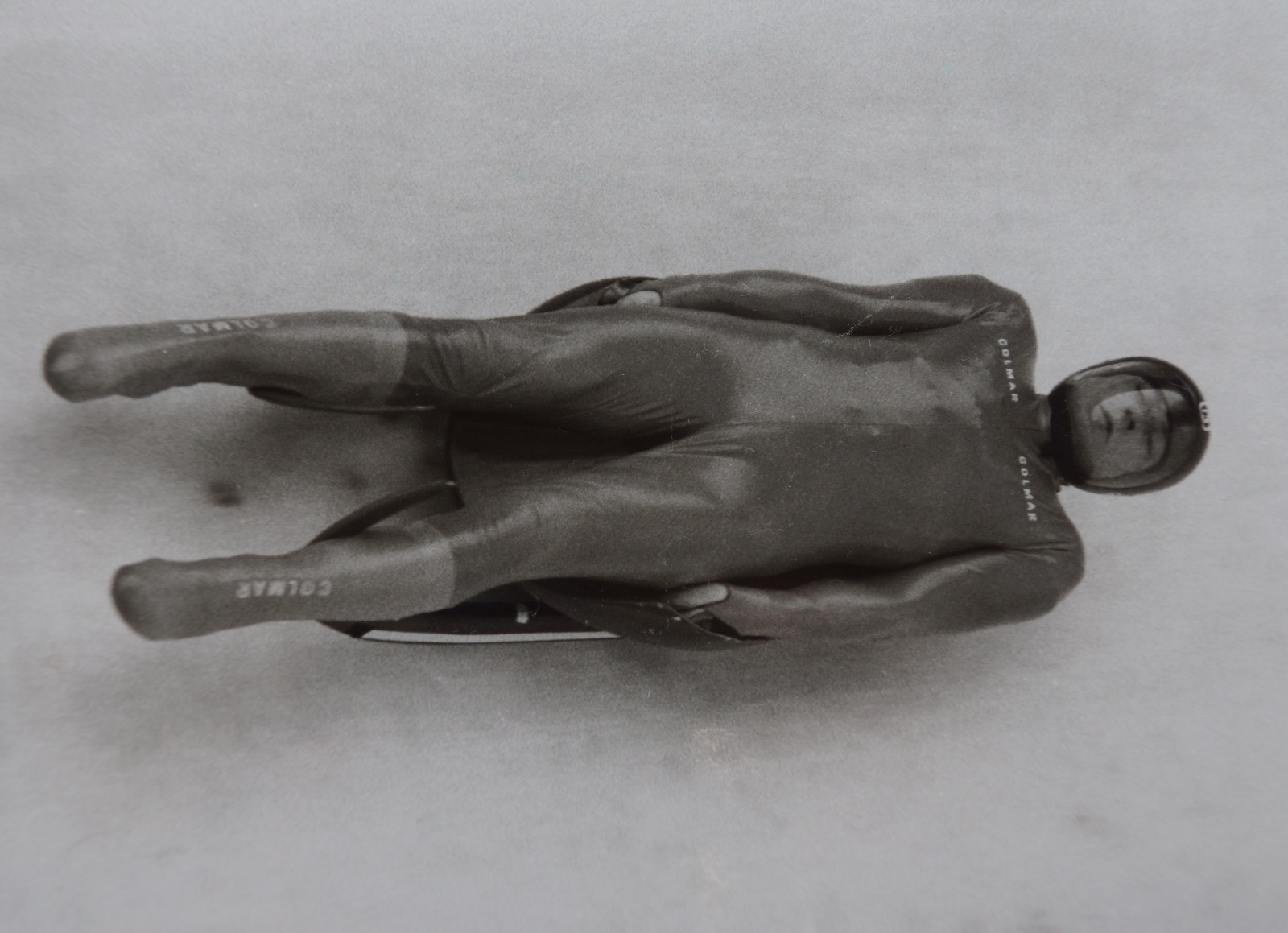 Single Man Race